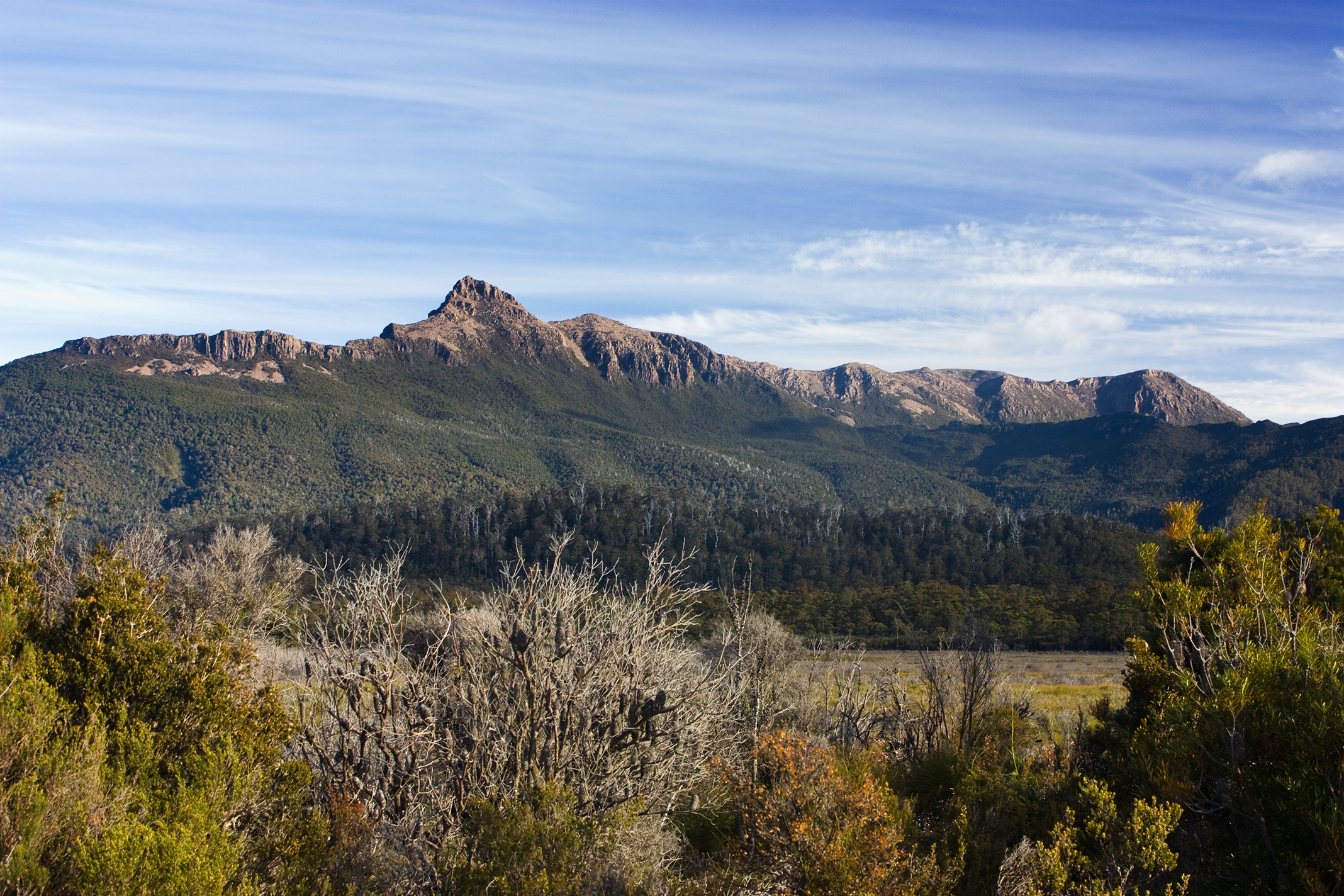 Mt Anne and Mt Eliza from Scott's Peak Dam Road, South West National Park, Tasmania, Australia